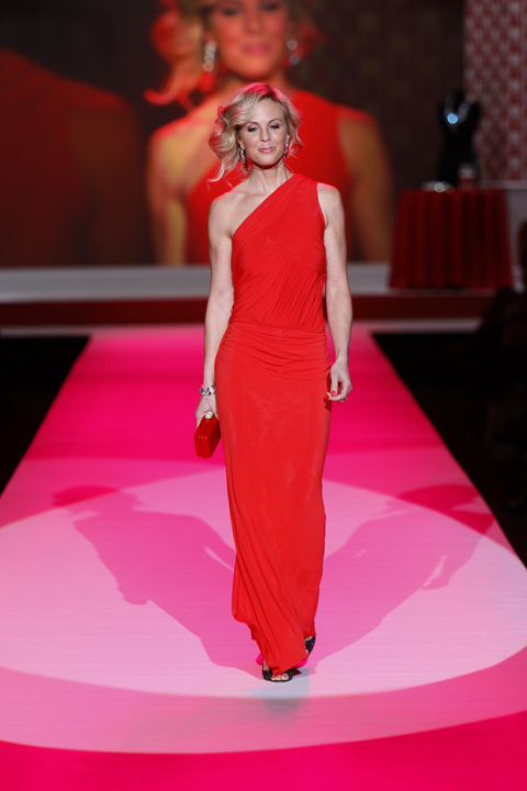 The Heart Truth® is a national awareness campaign for women about heart disease sponsored by the National Heart, Lung, and Blood Institute (NHLBI), part of the National Institutes of Health, U.S. Department of Health and Human Services (HHS). The Red Dress®, introduced by the NHLBI in 2002, is the national symbol for women and heart disease awareness. Visit for information on women and heart disease. ®, TM The Heart Truth, its logo and The Red Dress are trademarks of HHS. Participation by Mercedes-Benz Fashion Week, Diet Coke, Swarovski, Tylenol, St. Joseph's Aspirin, Bobbi Brown, and Brian Atwood does not imply endorsement by HHS.